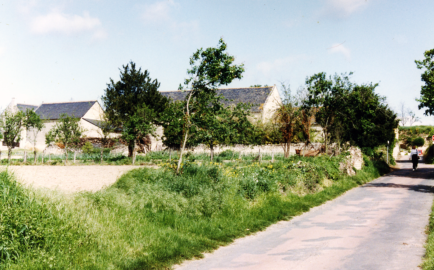 Rabelais museum, La Deviniere house in Seuilly town, Touraine, France.